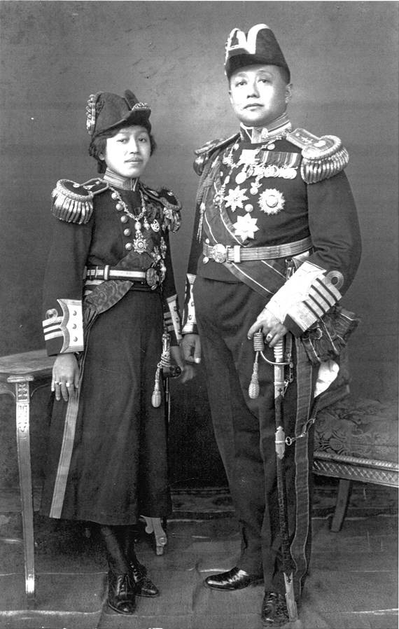 King Rama VI and Queen Indrasakdi Sachi.